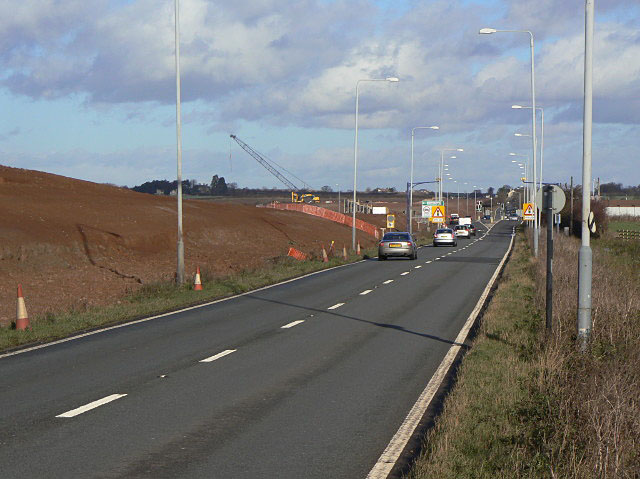 A46 near Cropwell Bishop The earthworks for the new Stragglethorpe Road junction are already looming large. The existing junction can be seen in the distance.